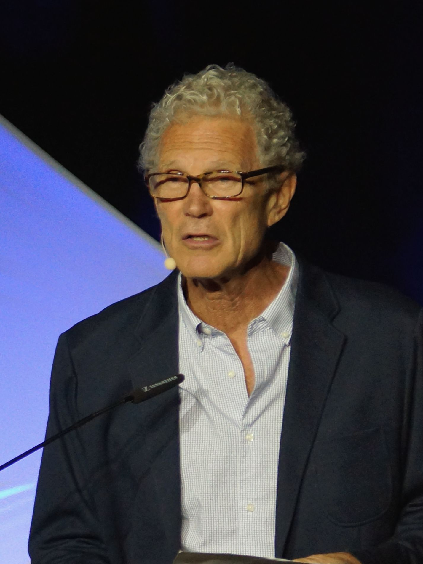 Dr. Dean Edell presented "Confessions of a Skeptical TV Doctor" at The Amaz!ng Meeting 13 on July 18, 2015 in Las Vegas, Nevada.